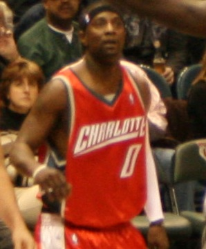 Jeff McInnis, formerly of the Charlotte Bobcats